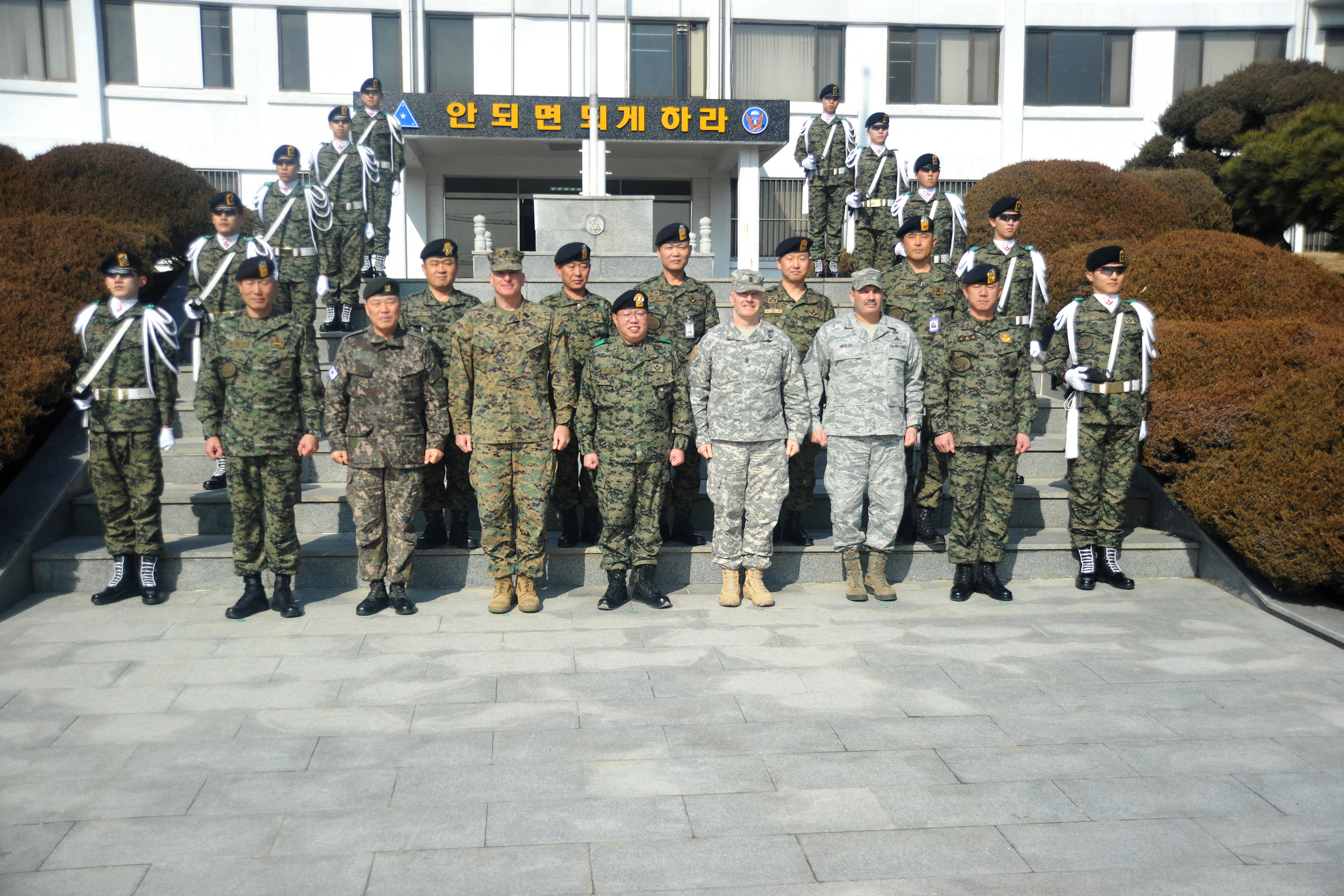 SEONGNAM, Korea -- Marine Corps SgtMaj Bryan Battaglia (Senior Enlisted Advisor to the Chairman of the Joint Chiefs of Staff), along with Command Sergeant Major John Troxell (Senior Enlisted Leader; US Forces - Korea), Command Chief Master Sergeant Eddie Mireles (Senior Enlisted Leader; Special Operations Command - Korea) and Command Sergeant Major Lee Gil-Ho (Republic of Korea Ground Component Command) visited the RoK Special Warfare Command (SWC) on 06FEB15. As part of the visit, the SEAC met Leuitenant General Chun In-Bum, the Commander of the SWC, and received a tour of the training facility. (Photo by Army Master Sgt. Terrence L. Hayes)